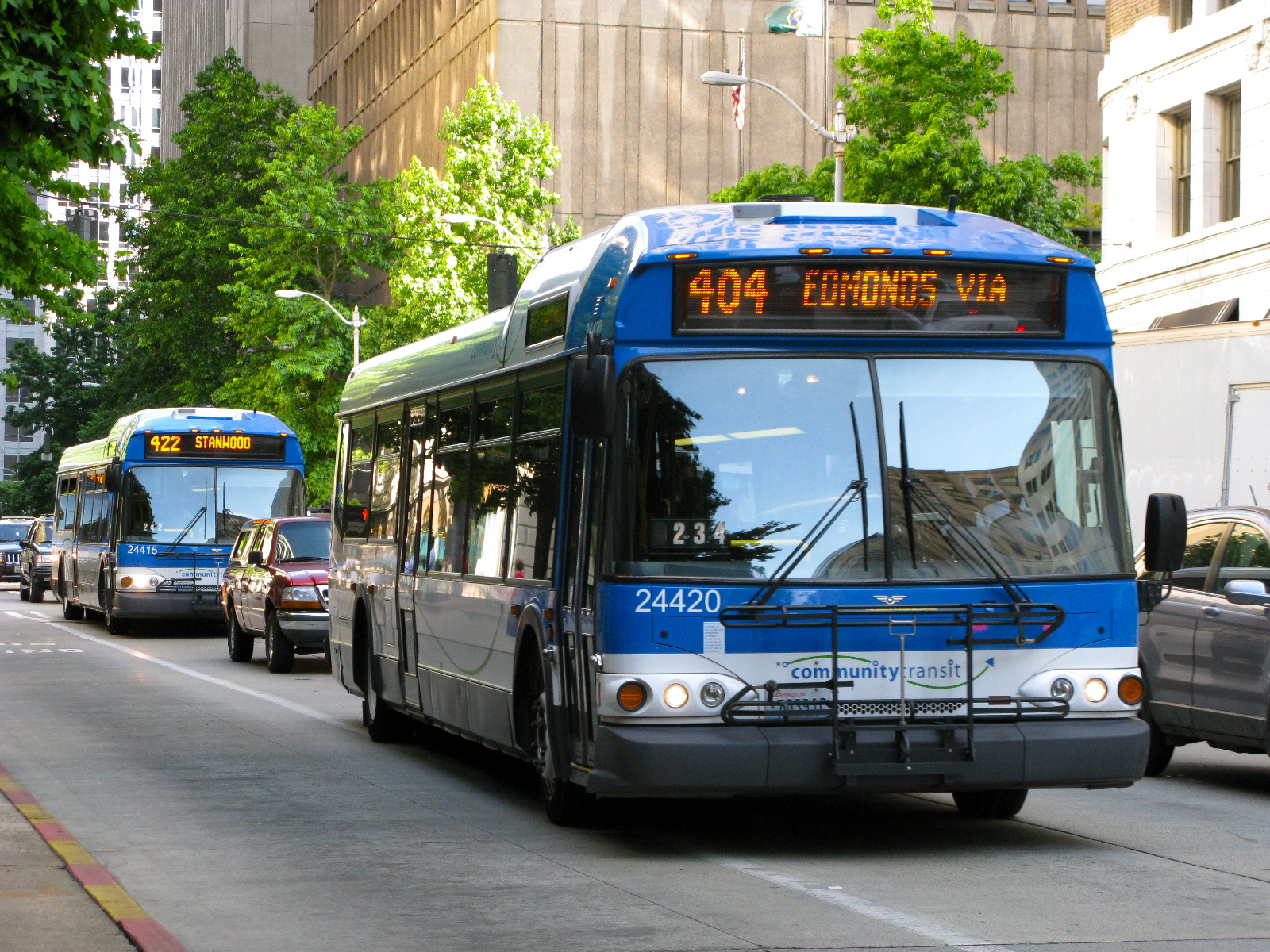 Two New Flyer D40i Invero buses operated by Community Transit in Seattle.